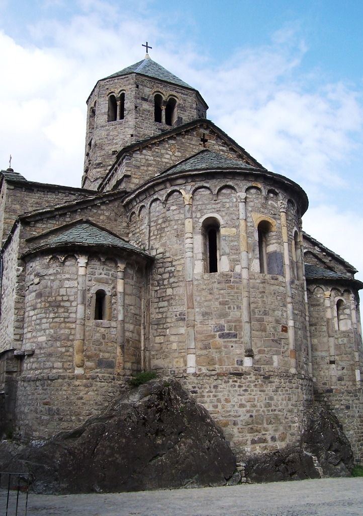 Apses of St Salvator Monasterium in Capo di Ponte, Val Camonica, Italy.